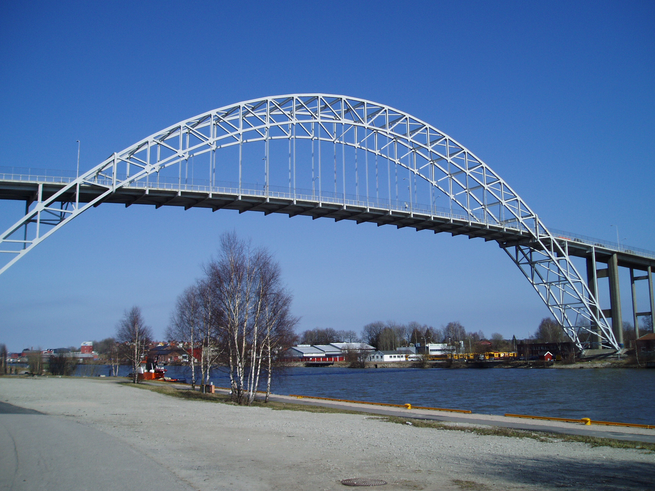 Fredrikstad Bridge (Norwegian: Fredrikstadbrua) looking North-East. The picture was taken from the west side of the river of Glomma, and from the south side of the brigde (downstream side). The picture was taken by JohnM 23 April 2006.